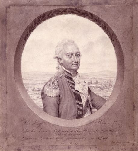 Pencil and grey wash portrait of Charles Cornwallis, 1st Marquess Cornwallis. Feigned oval. Painted by English artist John Smart, 1792. 7 1/4 in. x 6 5/8 in. Courtesy of the National Portrait Gallery, London.